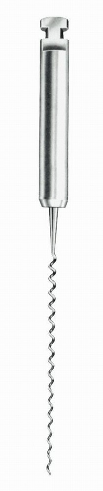 Lentulo spiral / root canal filler